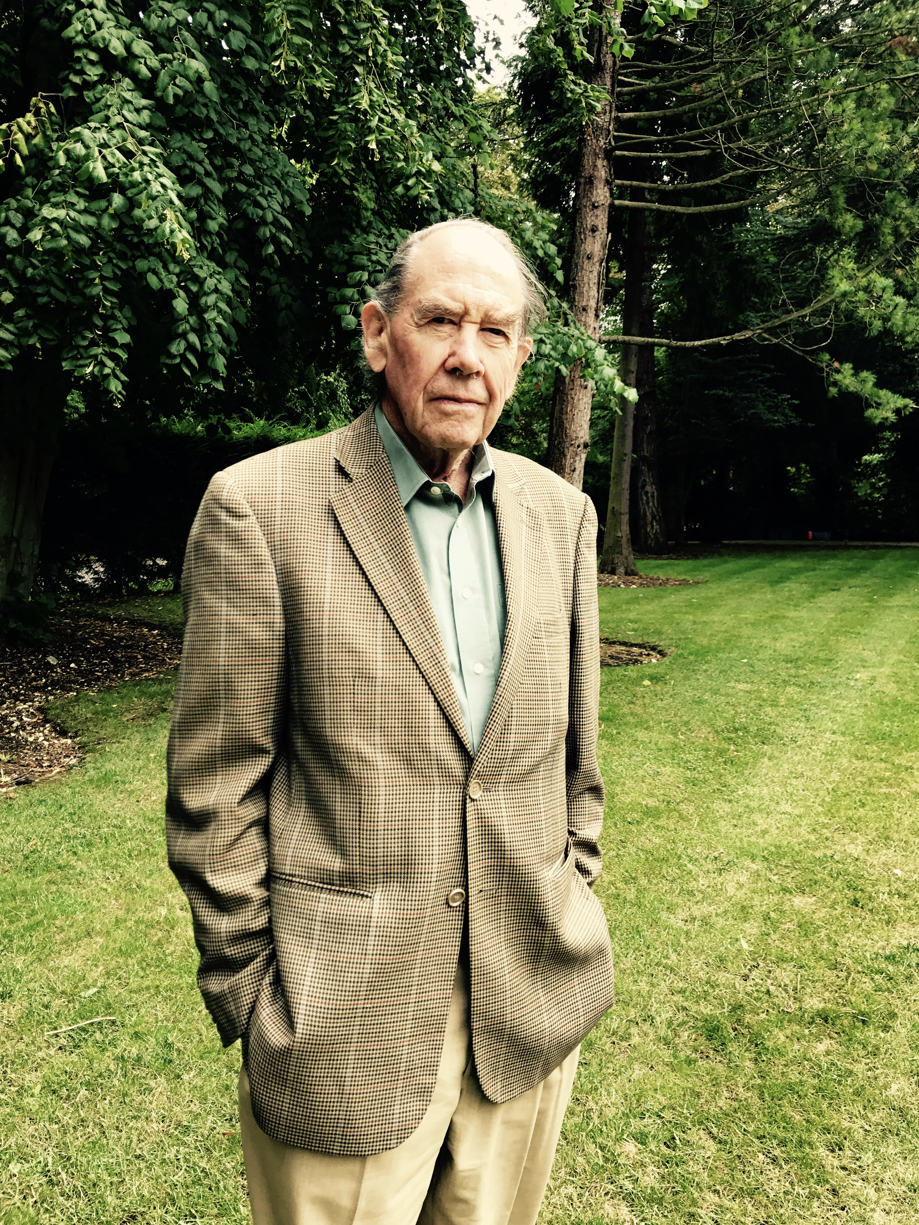 portrait